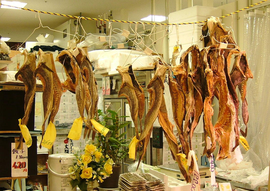 棒鱈、ぼうだら Preserved Codfish (Bodara), in Osaka Market. Cropped with FinePixViewer